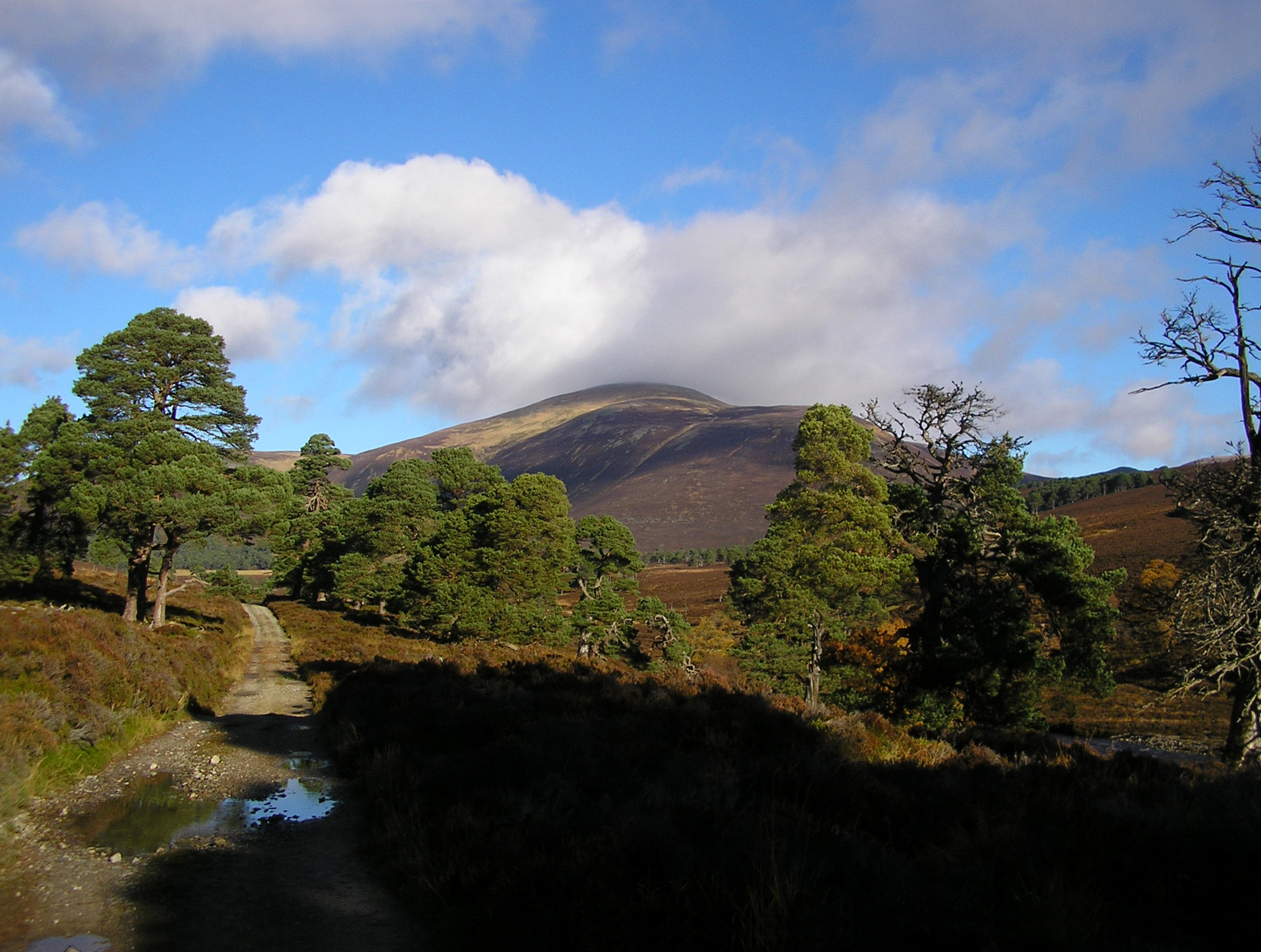 Mature Scots Pine Pinus sylvestris. Glen Quoich, looking towards Beinn a' Bhuird, Scotland.